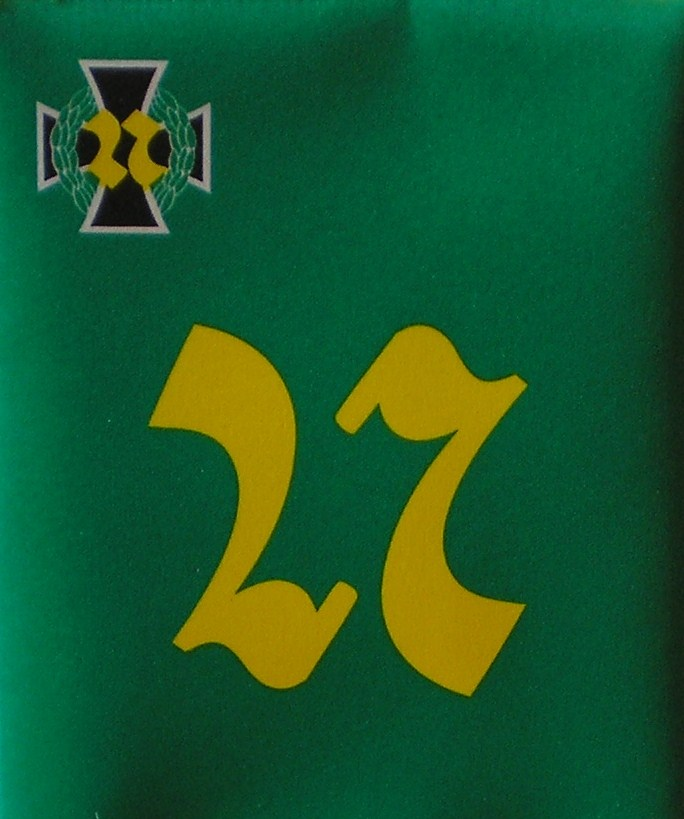 Finnish jager 27 flag